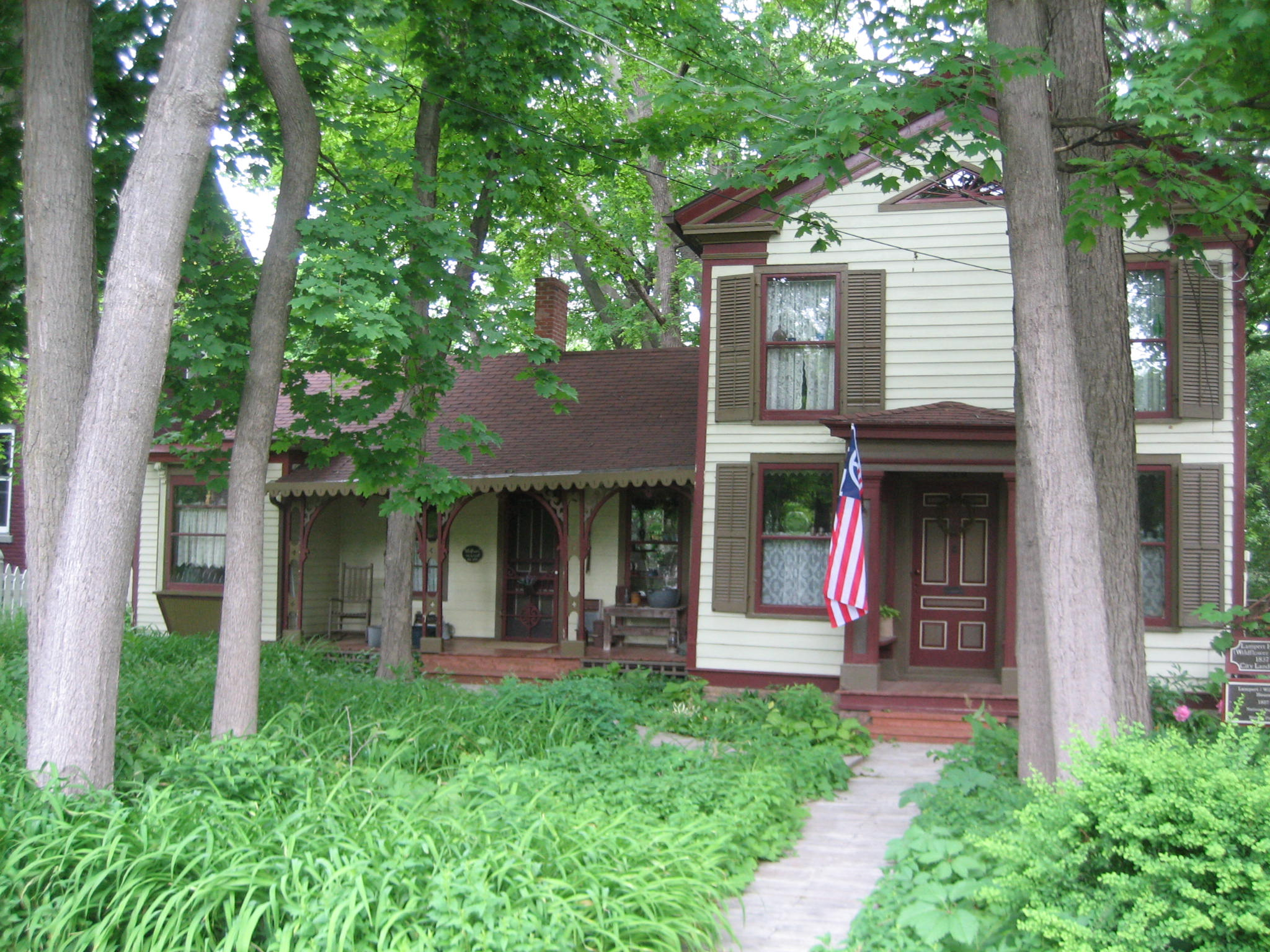 Lampert-Wildflower House, Belvidere, Illinois. National Register of Historic Places.